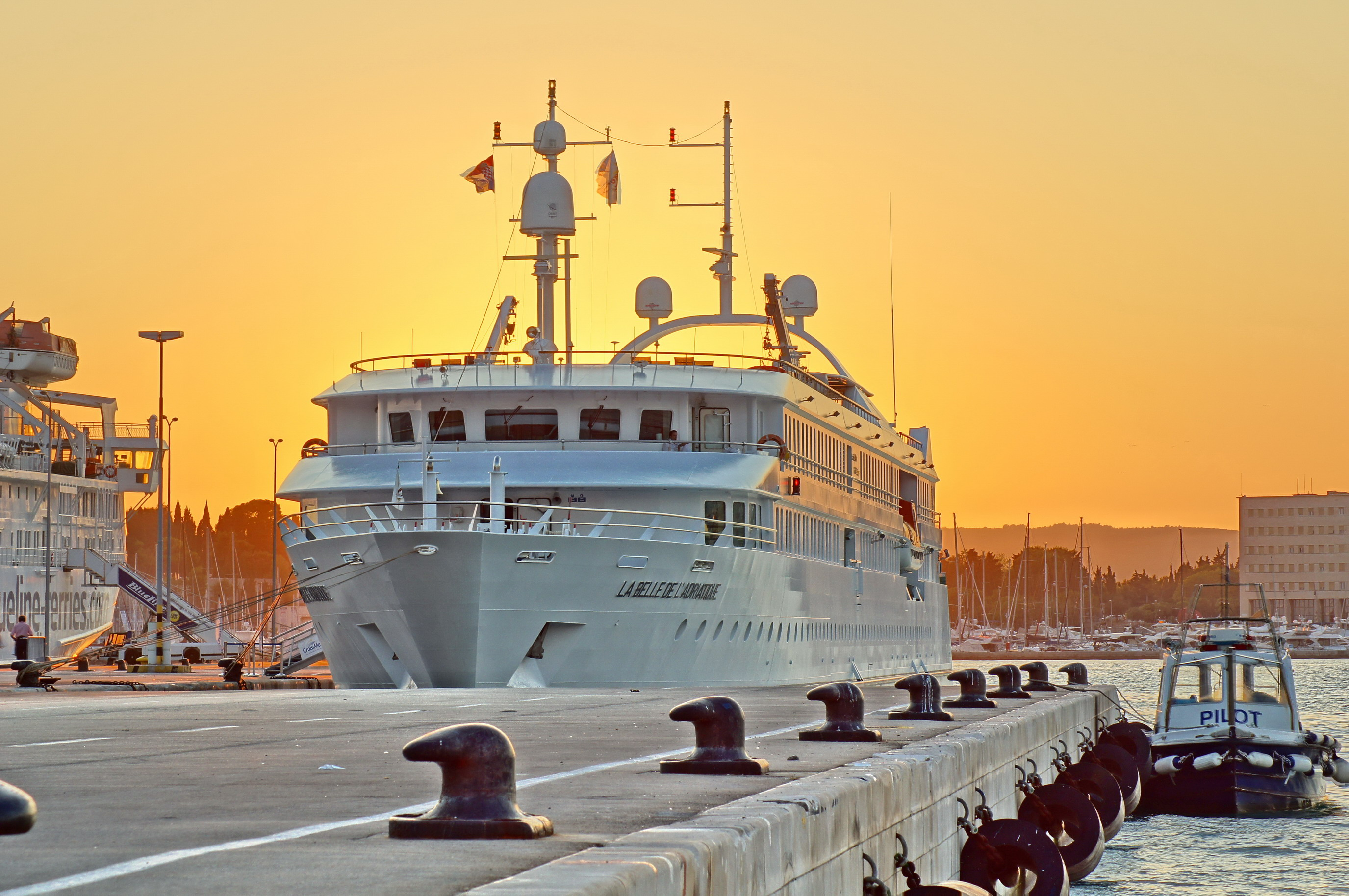 La Belle de l'Adriatique (ship, 2007) IMO 9432799: in Split, 2011-10-03; At the Saint Domnius Quay